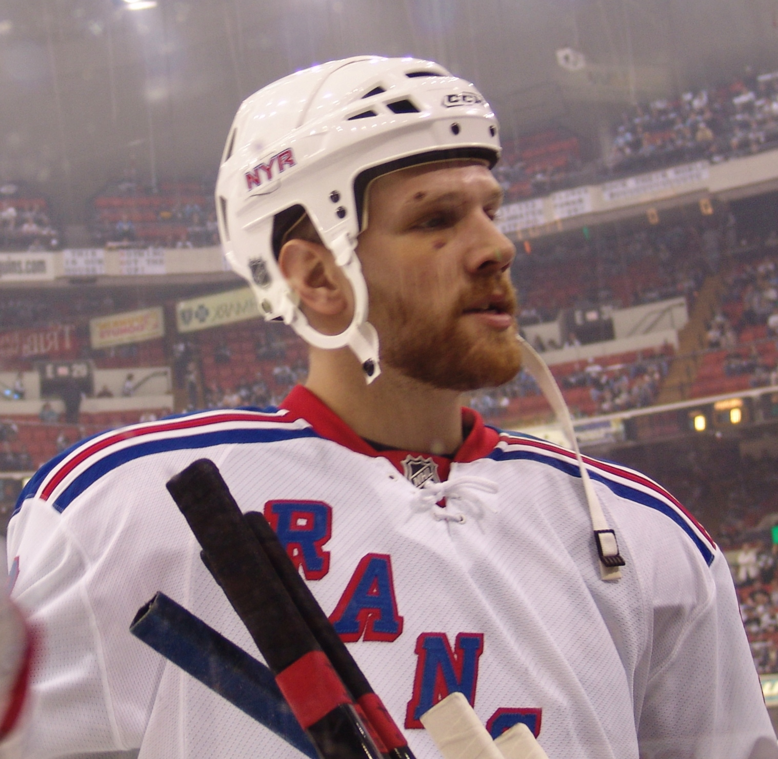 New York Rangers forward Fredrik Sjöström stops at the bench during the warm-up before a 2008 Stanley Cup Playoff 2nd round game against the Pittsburgh Penguins at Mellon Arena in Pittsburgh, PA. May 4, 2008.